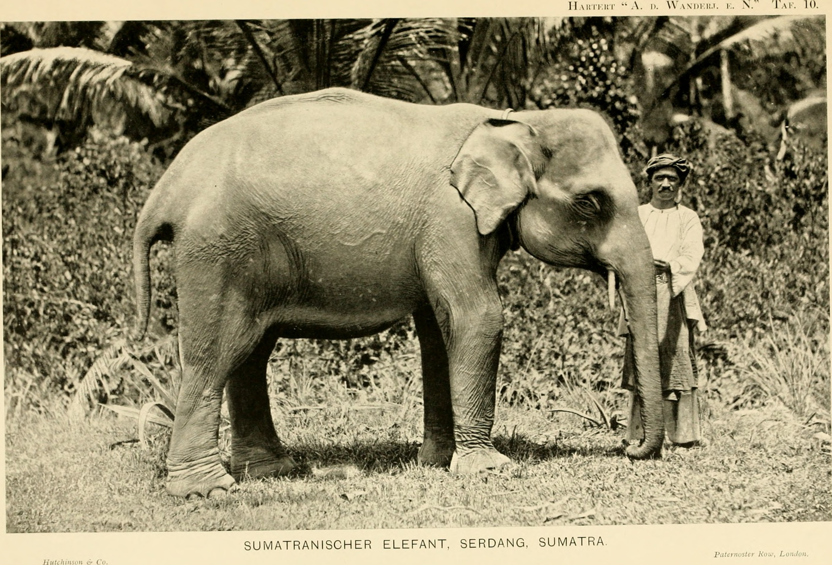 Title: Aus de Wanderjahren eines Naturforschers. Reisen und Forschungen in Afrika, Asien und Amerika ... Meist ornithologischen Studien Year: 1901 (1900s) Authors: Hartert, Ernst, 1859-1933 Subjects: Ornithology Publisher: Berlin : R. Friedländer & Sohn (etc. ) Text Appearing Before Image: ' Text Appearing After Image: '